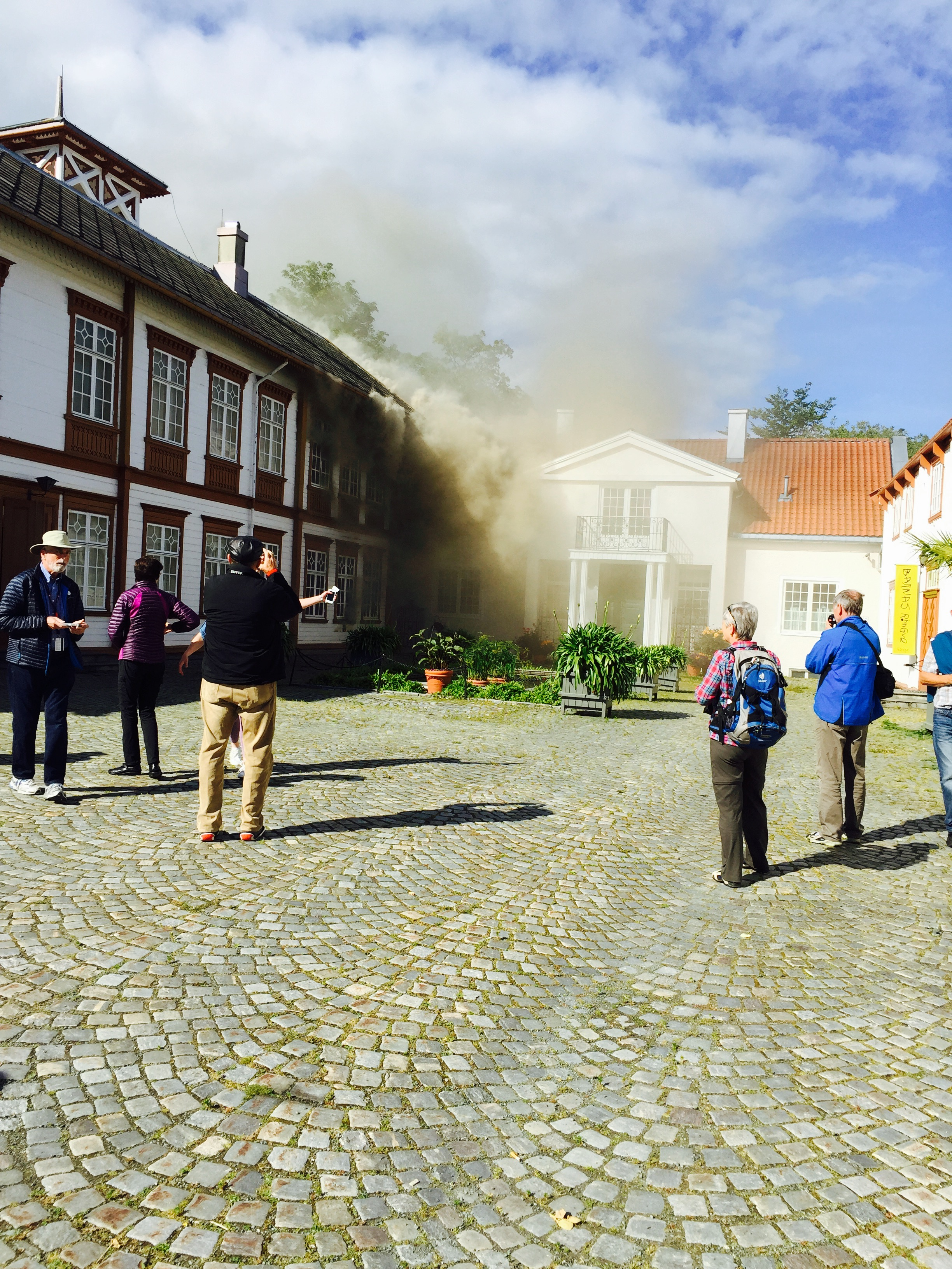 The Ringve Museum in Trondheim, Norway, on fire on the 3rd of August 2015.